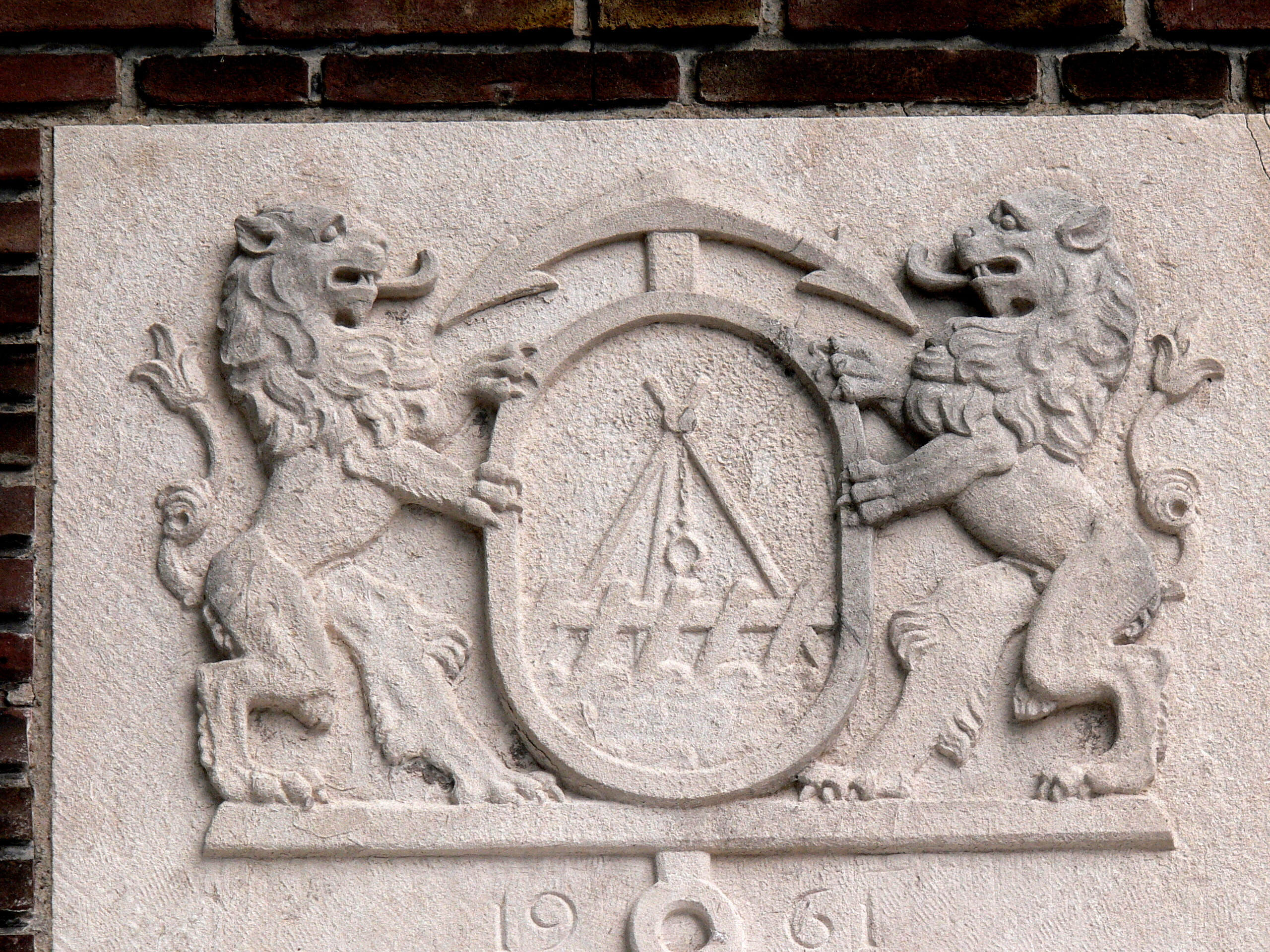 Den Burgh on Texel. Coat of arms of the town.